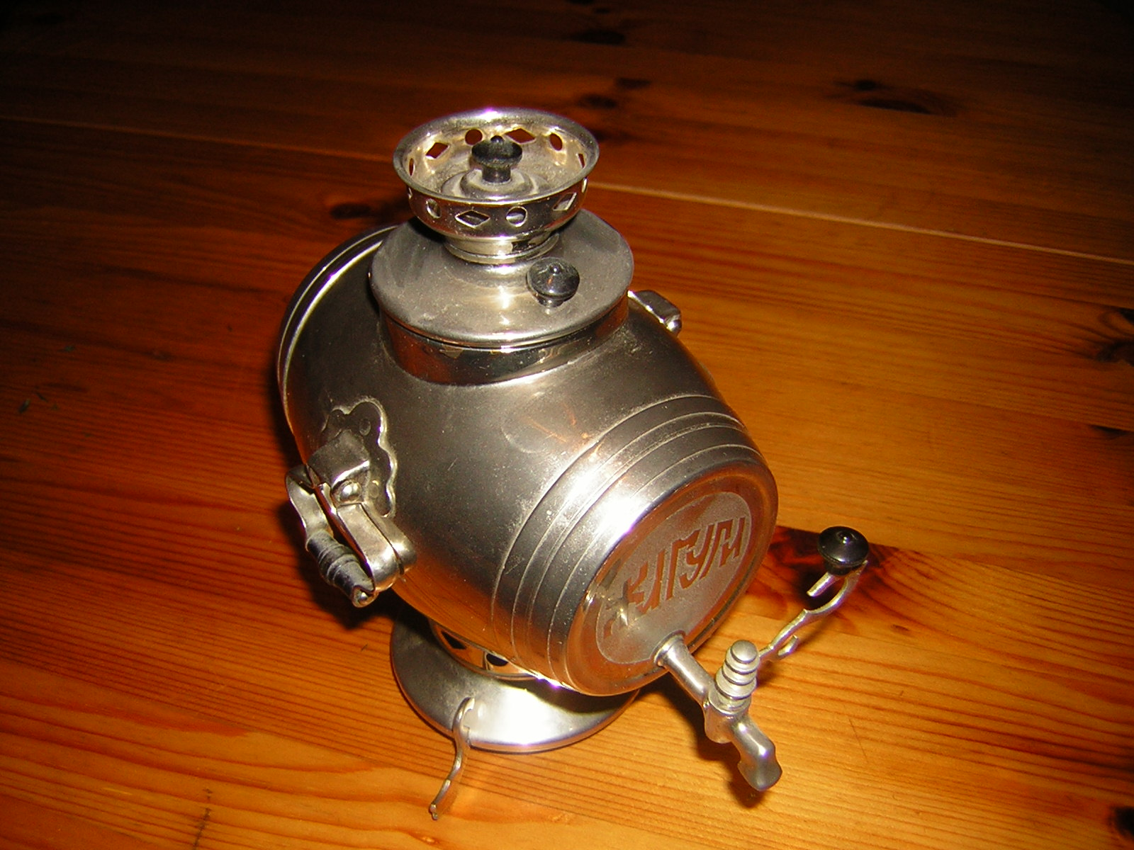 Samovar type "barrel"